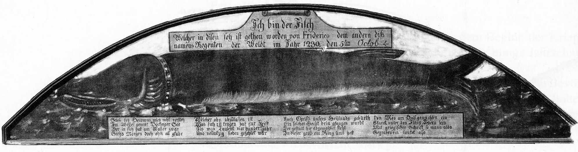 1612 Gemälde Böckinger Hecht im Heilbronner Rathaus